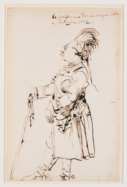 "Baron Clemens August von Haxthausen in Stockholm. 1782". Pencil, pen and brown ink. 344x223 mm. Statens Museum for Kunst, Kobberstiksamlingen.